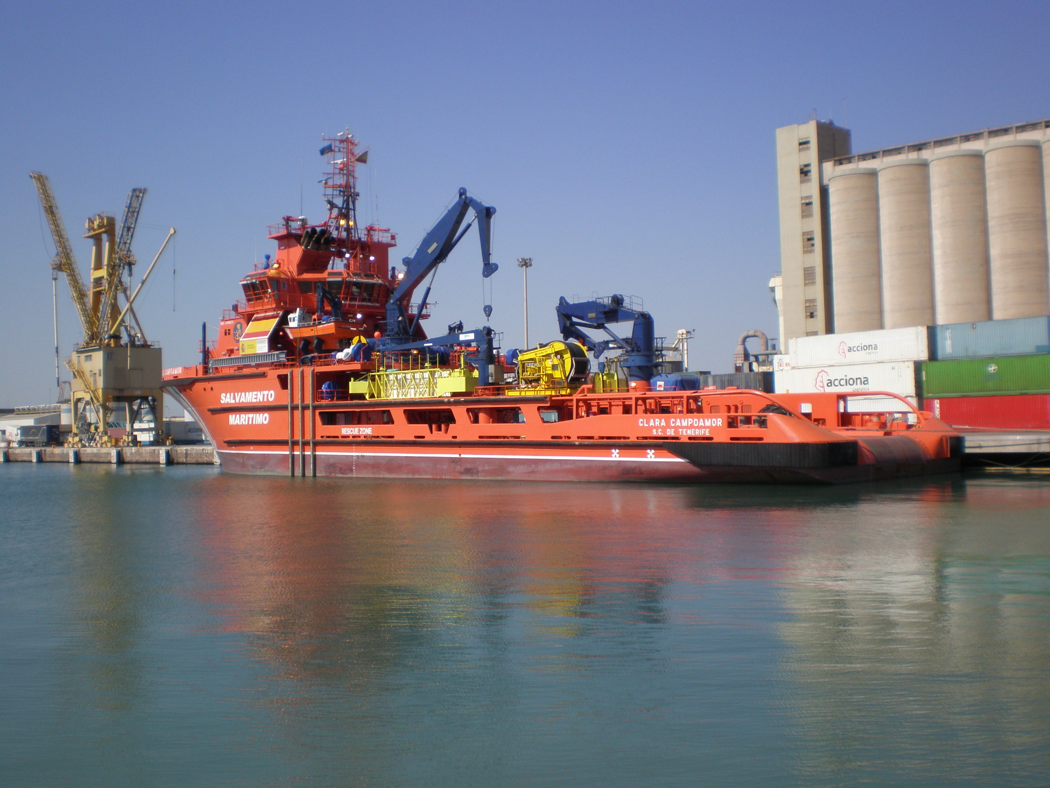 Clara Campoamor tugboat